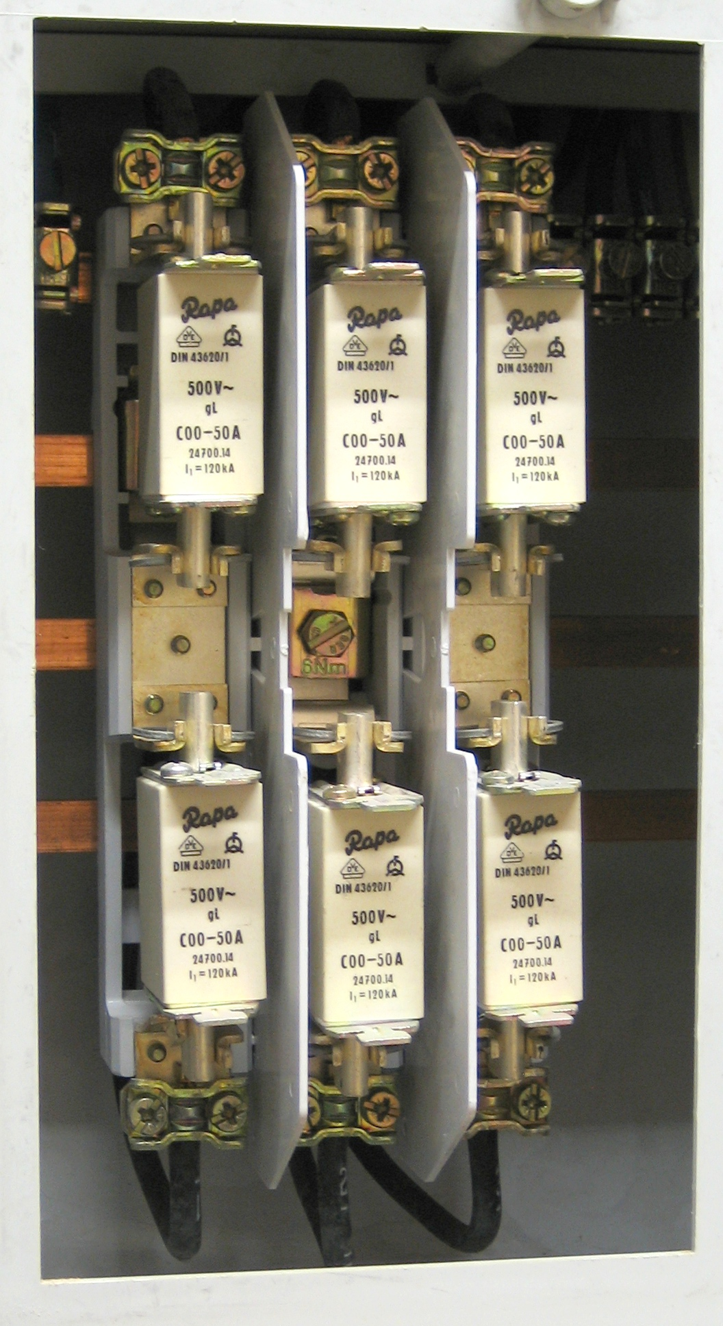 Knife fuses 50A with gG characteristic. Also, you can see here widespread mistakes: 1)Load switch is not seen here, person who will replace those fuses might be killed by arc easily; 2)Hot busbars are not separated by ribs like fuse sockets. If electrician casually drops something metal there, he will have quite serious skin burns to all his life long due to too high short-circuit current. For example, pliers or screwdriver are not melting at all during short circuit and they can't initiate immediate operation of the fuse (fuse on distribution substation will trip only in 15 seconds after short circuit), so electrician will be exposed to skin damaging during 15 seconds. To correct mistakes, there should be installed load switch with door mechanical constraint (when you turn the lock to open the door, it removes the voltage at same time), which allows open the door only when voltage is removed. But as those standarts are missing, nobody does more safe way.